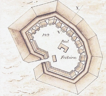 Watercolour drawing of the Fort of Feiteira, Lisbon District, Portugal. This fort was one of the Lines of Torres Vedras